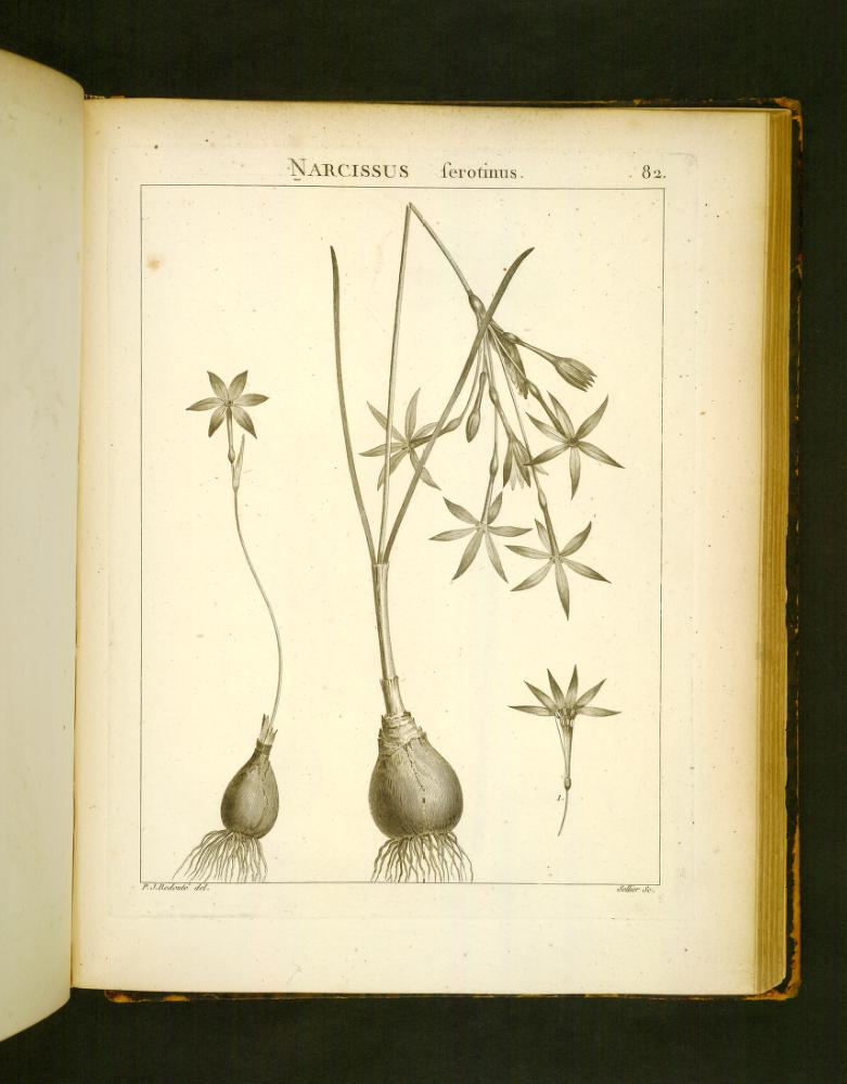 Illustration of Narcissus serotinus